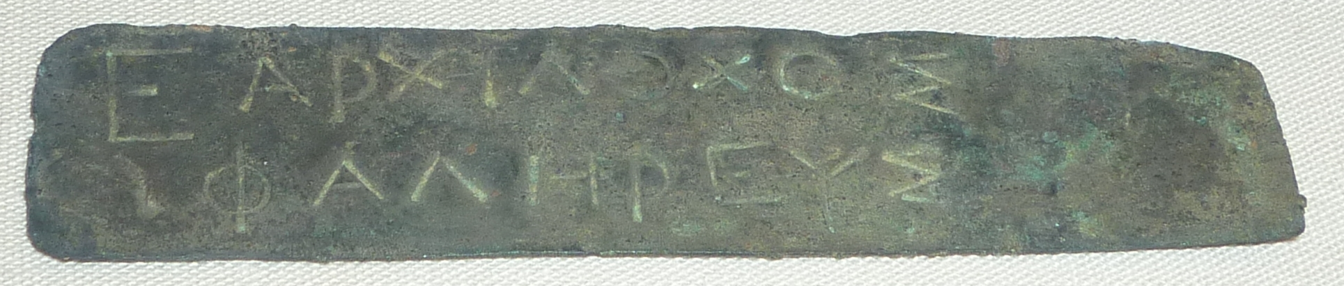 Bronze dikast ticket of Archilochos of Phaleron. About 370-362 BC, reused after 350 BC. British Museum collection.